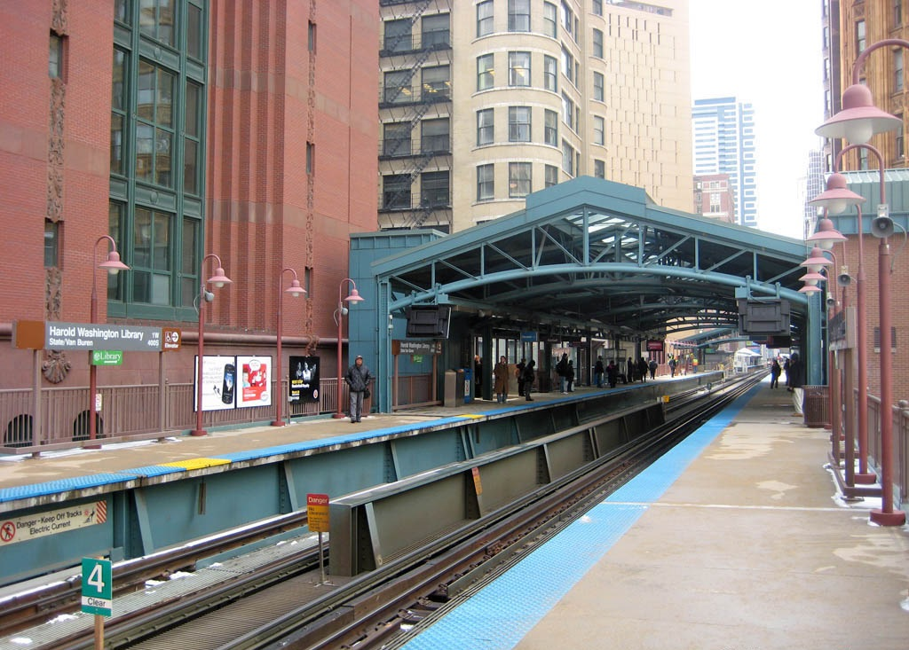 The Harold Washington Library-State/Van Buren station platforms are seen looking west from the Inner Loop platform on February 24, 2011. With its olive steel shed, the facility resembles a classic train station, similar to the station at Davis in Evanston. The lights are also reminiscent of the "L"'s original platform lights.